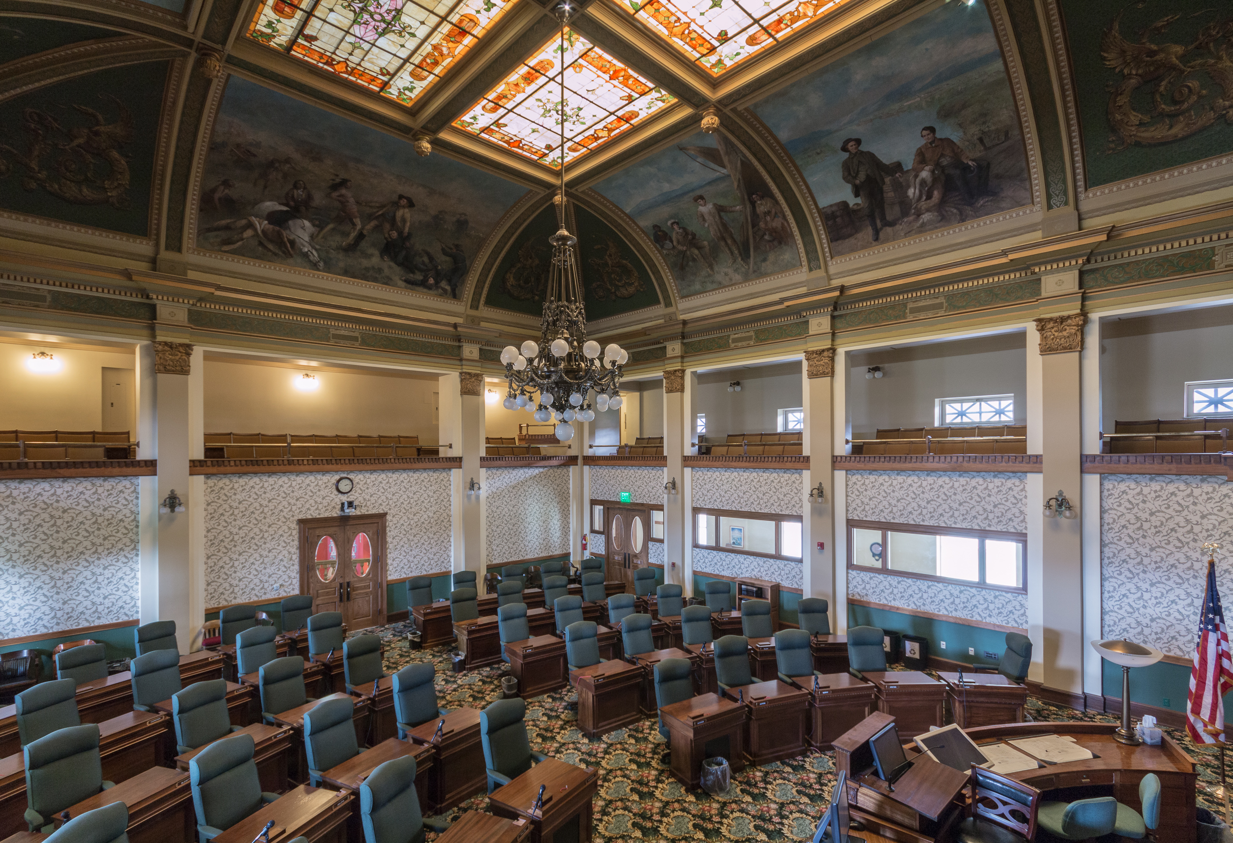 The chamber of Senate in the Montana State Capitol in Helena